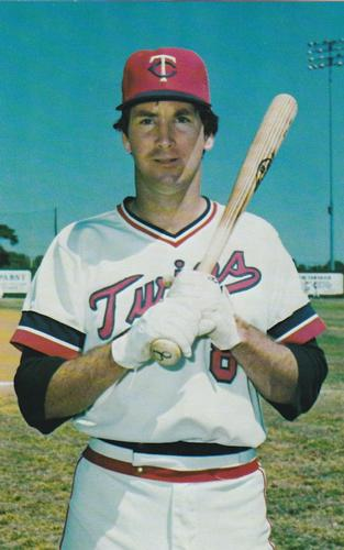 Color postcard from the 1981 Minnesota Twins postcard set of professional baseball player Glenn Adams